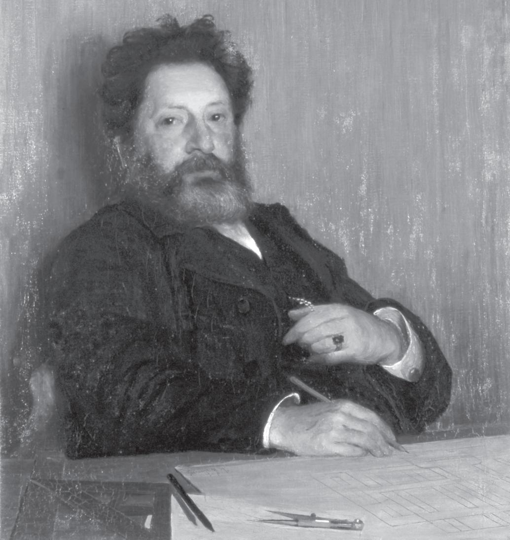 Romeo Bonomelli, "Elia Fornoni portrait" (1904)